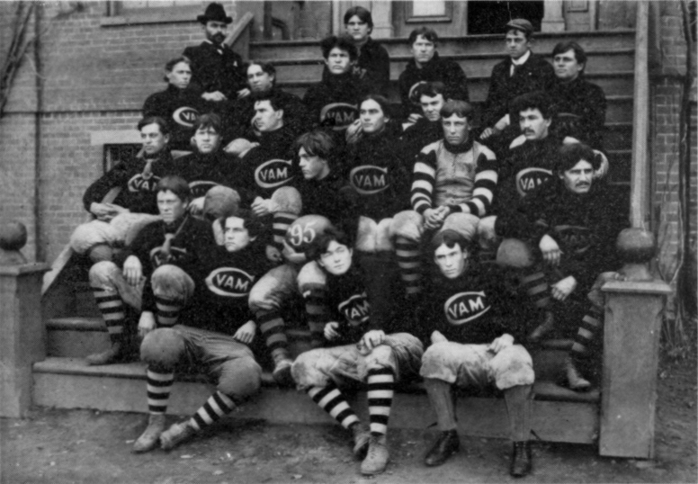 Photograph of the 1895 Virginia Agricultural and Mechanical College (now Virginia Tech) football team.